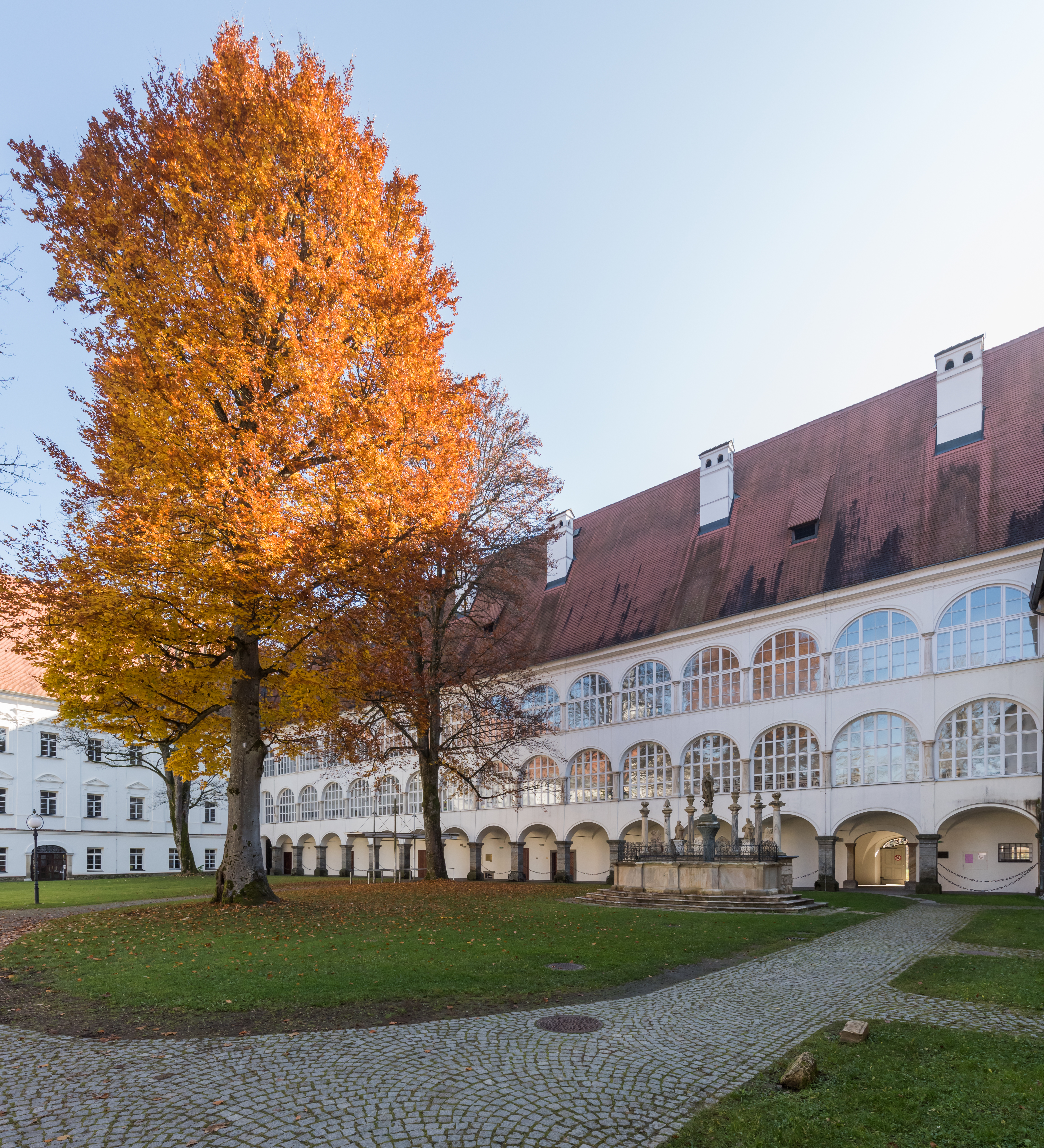 Mary`s yard at the Cistercian monastery, 13th district Viktring, municipality Klagenfurt, district Klagenfurt Land, Carinthia, Austria, EU